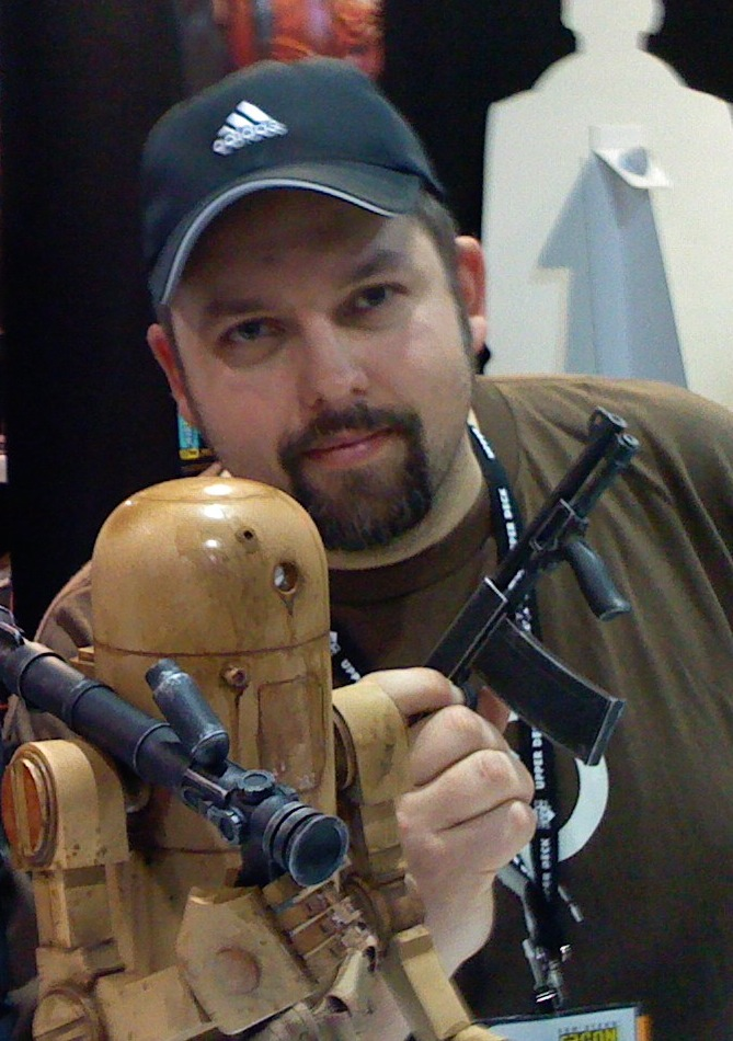 Comics creator Ashley Wood. This is a cropped version of File:ChrisRyall.JPG